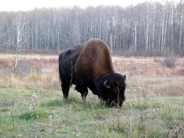 A bison in the Elk Island National Park in Alberta, Canada. The picture was taken in October 2004.